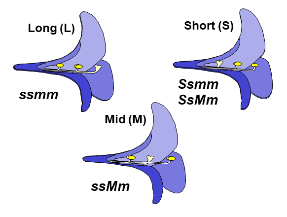 Tristyly is controlled by two independently segregating loci. The M locus controls the expression of the mid-styled morph; plants having the dominant M allele produce mid-styled flowers.The S locus controls the expression of the short-styled morph; plants having the dominant S allele produce short-styled flowers regardless of the genotype at the M locus (the S locus is epistatic-dominant to the M locus). Plants with recessive alleles at both loci produce long-styled flowers.